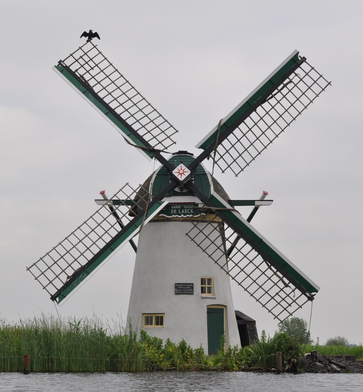 The Lakermolen (Laak mill) on the island Laker Polder in the Kaag Lakes, Warmond, Province of South Holland, Netherlands. This mill was built in 1821, completely revised in 1830, and still functions; it is a listed building. The year 1632 on the mill indicates the date the Laker Polder was established, not the mill itself!